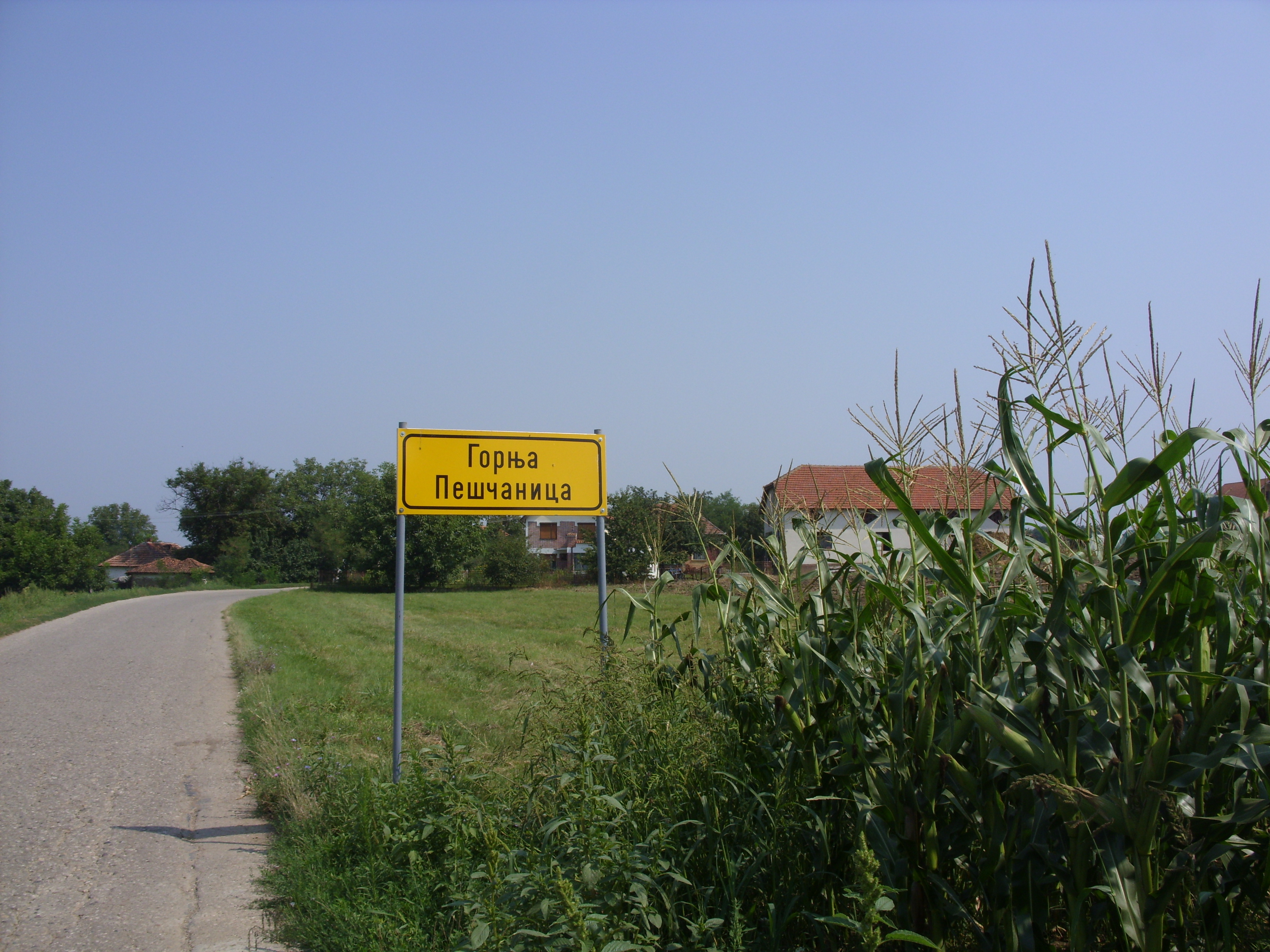 villqge Gornja Peščanica, Aleksinac, Serbia